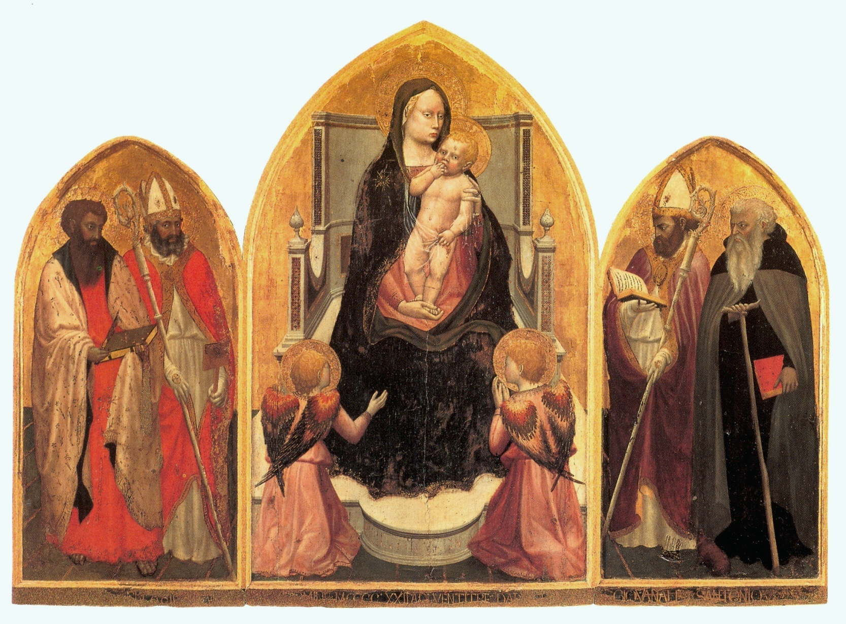 San Giovenale Triptych